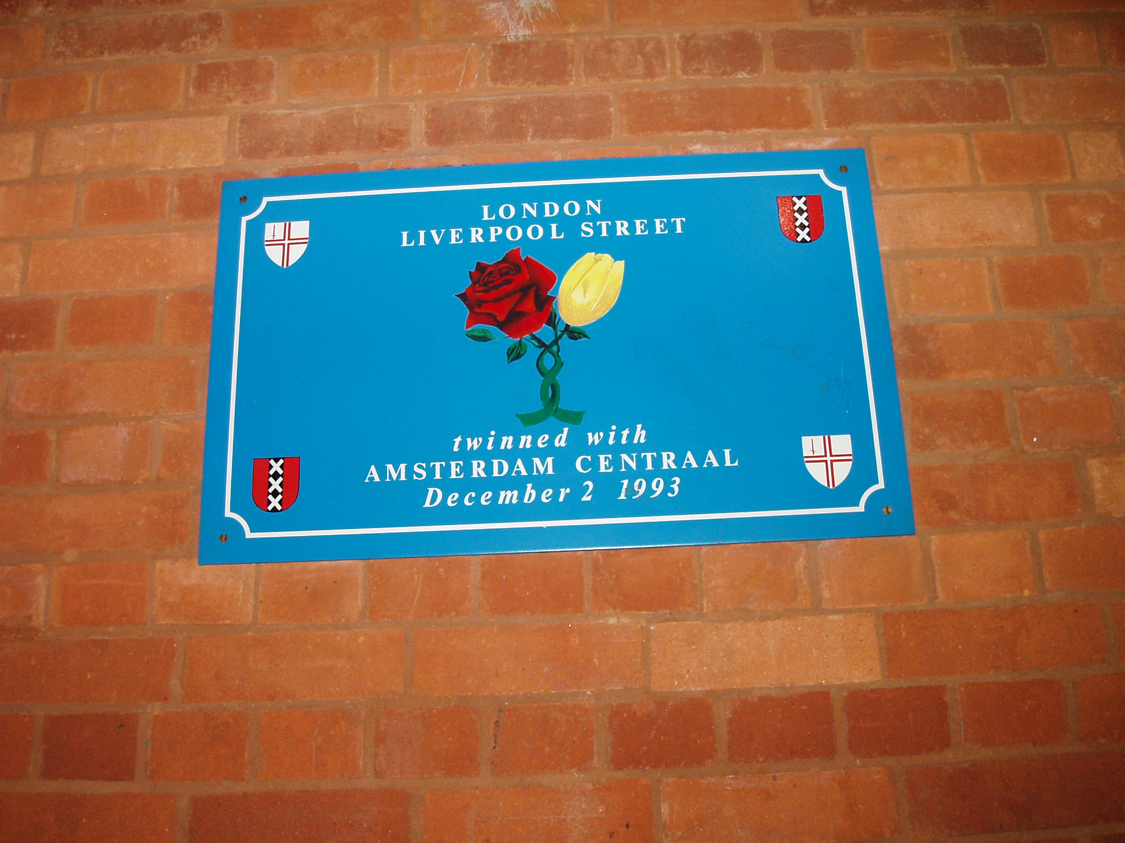 Twinning plaque at Liverpool Street station, London, UK.